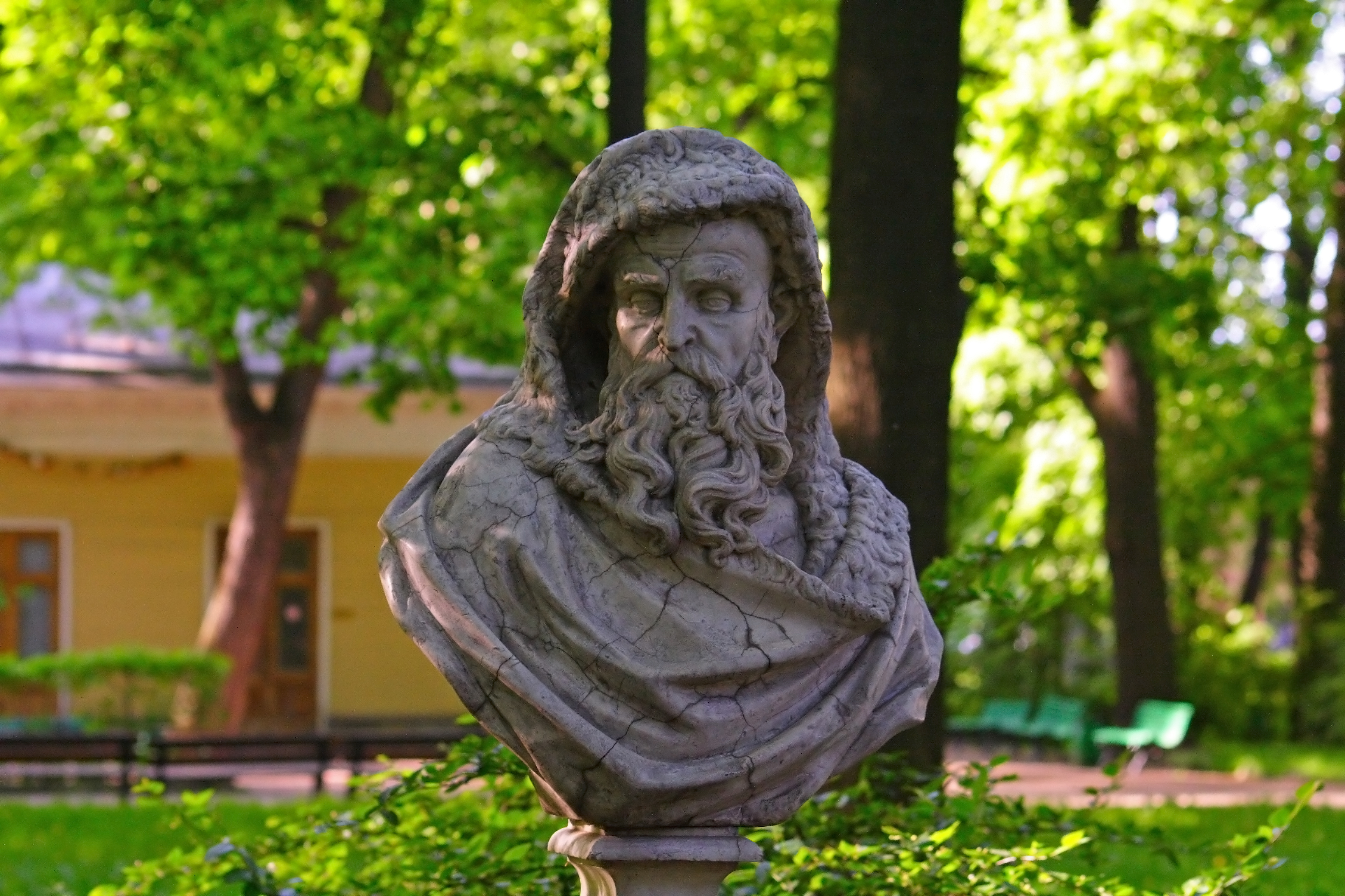 Allegory 'Winter'. Summer garden, Saint-Petersburg